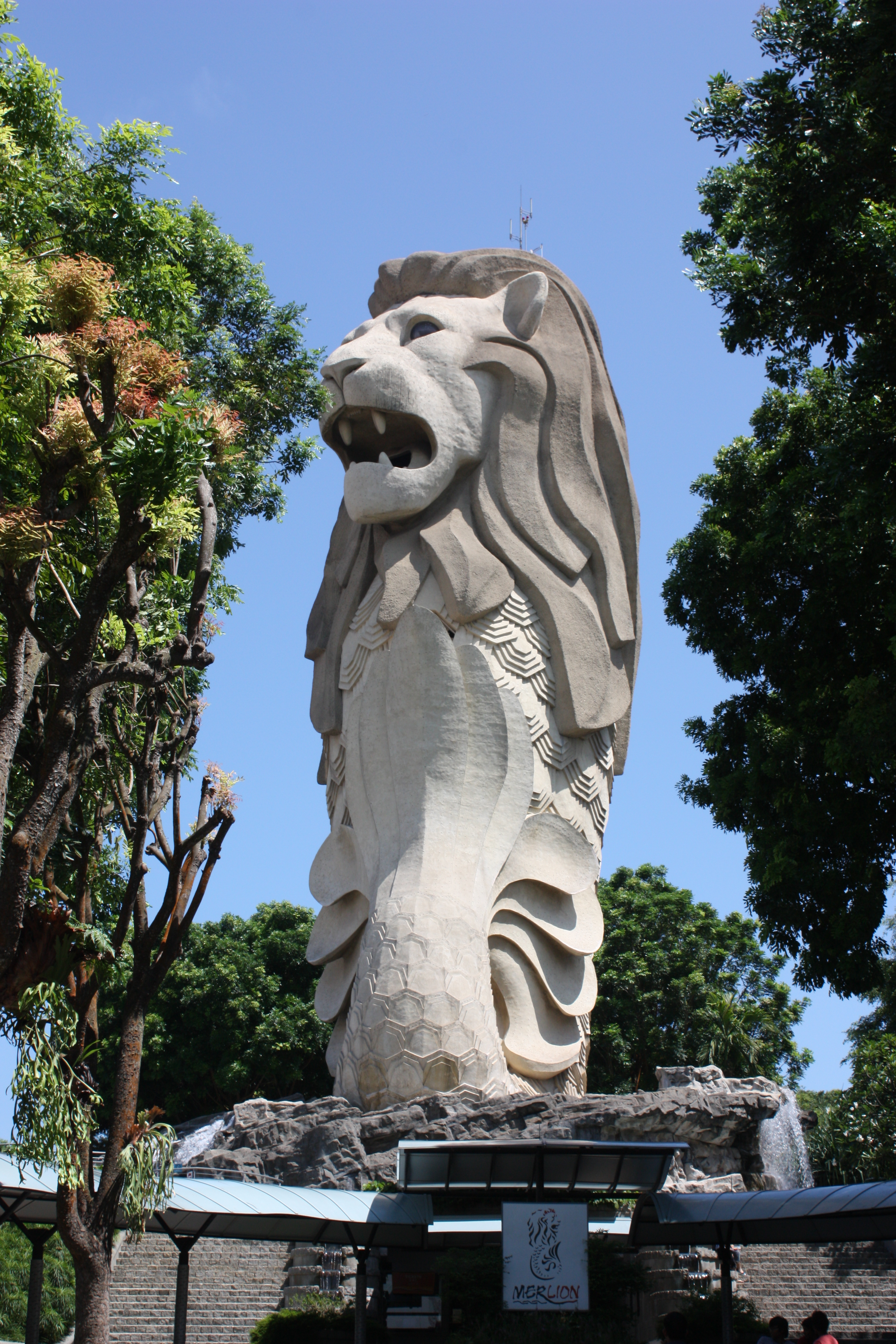 The Merlion Sentosa Island, Singapore by Wolfgang Holzem /